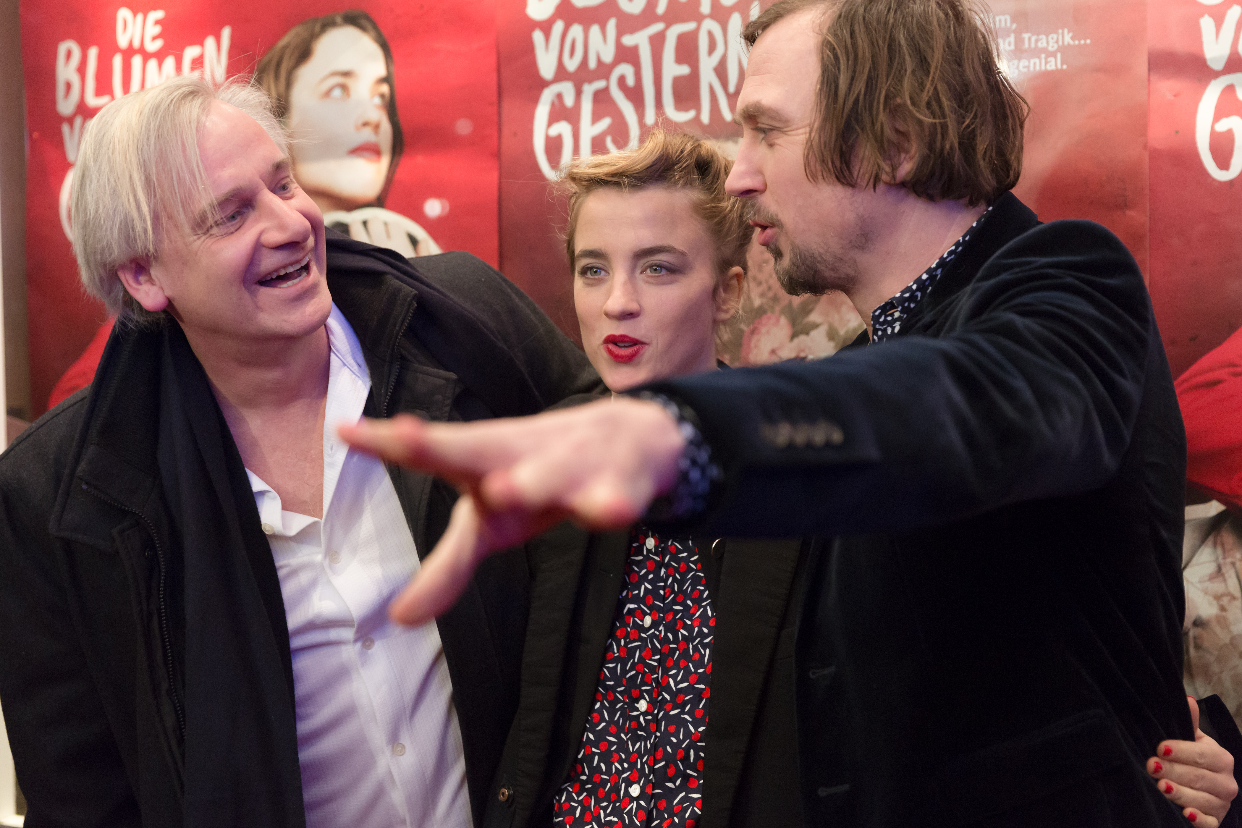 Chris Kraus, Adèle Haenel and Lars Eidinger at the Austrian premiere of Die Blumen von gestern at Gartenbaukino, Vienna, Austria.